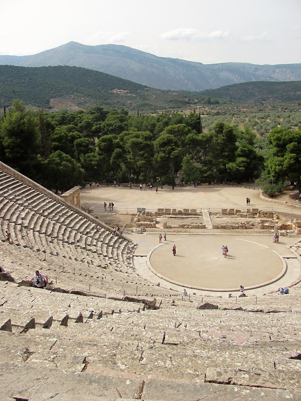 theatre for 14 tsd visitors from 330 BC